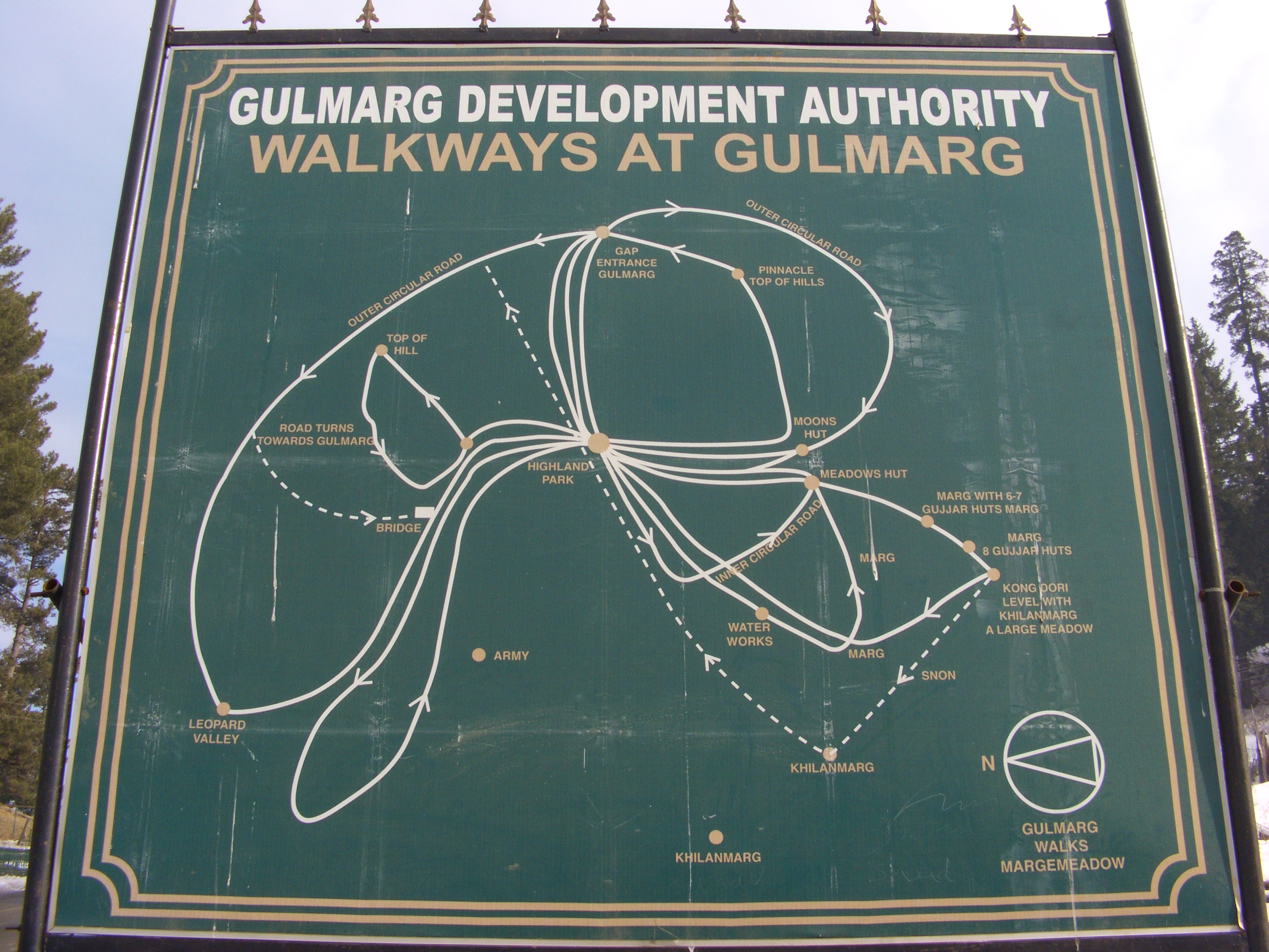 Displays all the tourist points and walkways across gulmarg. Total walkway length as displayed is under 6 km. Picture taken on December 26, 2005 by Vikas Yadav.